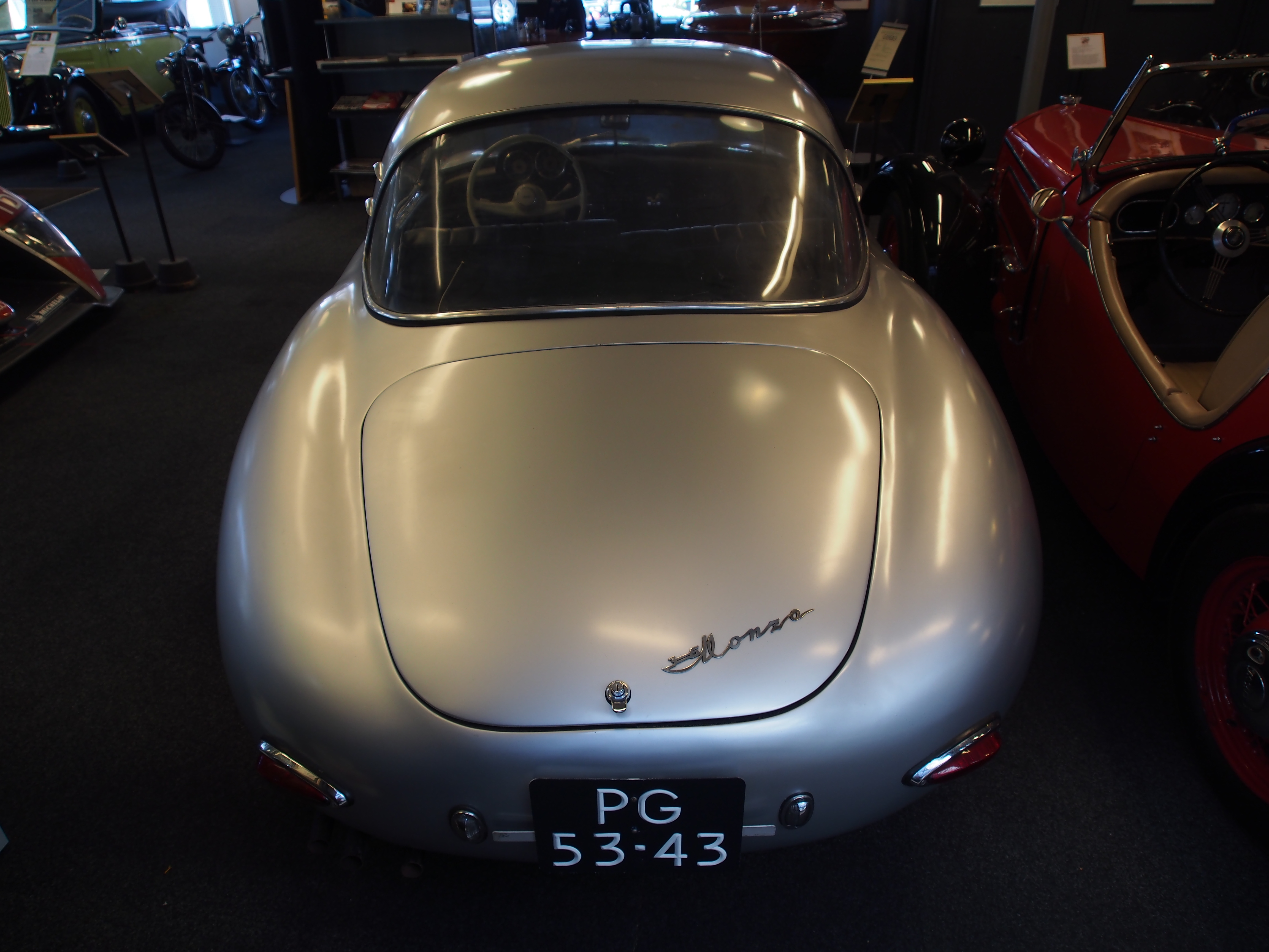 Photographed in the Auto-Union Museum in Bergen, The Netherlands.